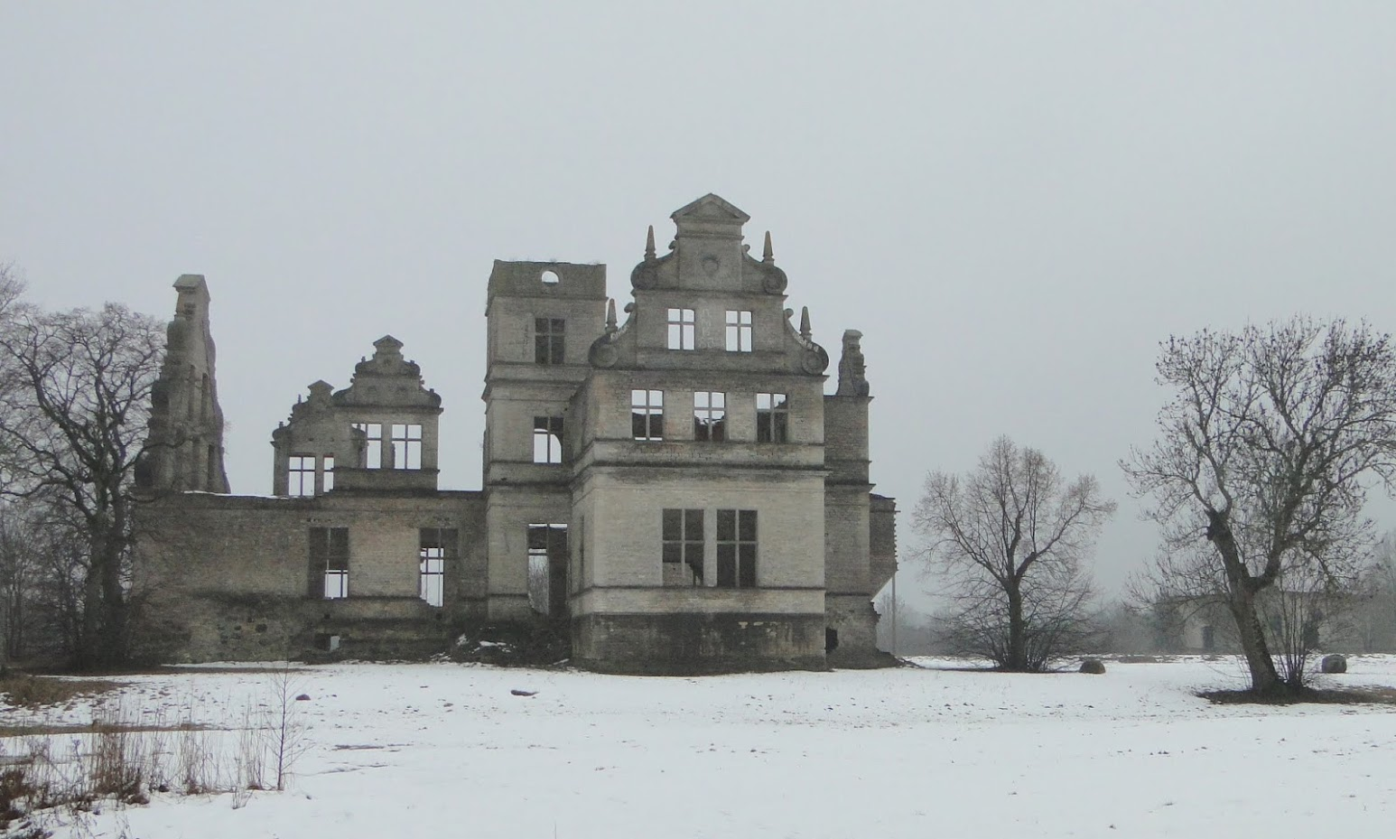 Kiltsi, ruins of the palace